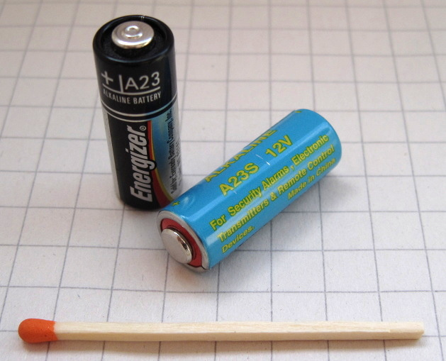 2 A23 (8LR932, 8LR23 or ANSI-1181A) type batteries with a matchstick for comparison. This is an ordinary matchstick like the kind that comes in match boxes. It is not a giant or super matchstick, in fact you probably have one in your home right now!